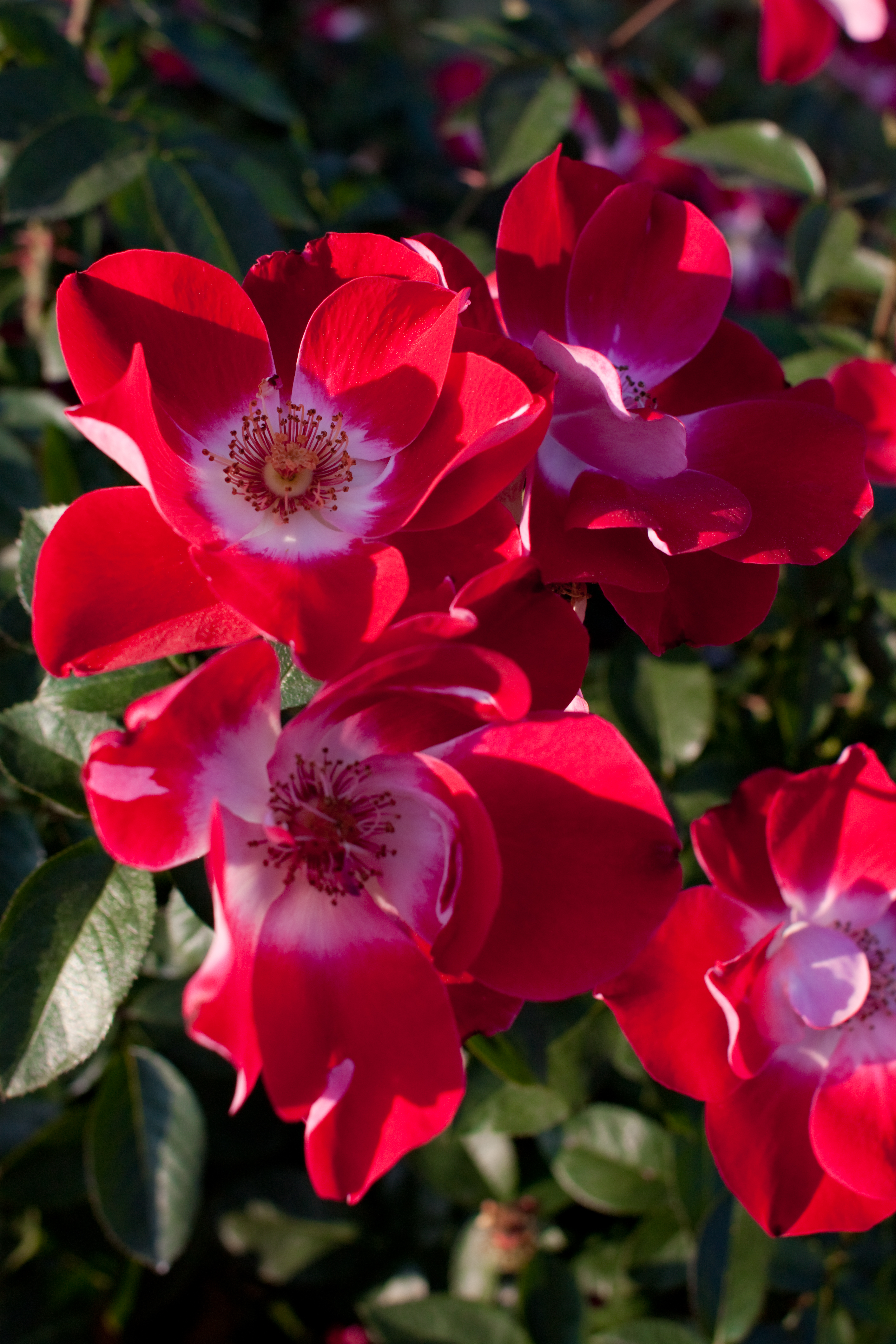 Rendan. Means "Duet ". Production in Japan. 連弾。